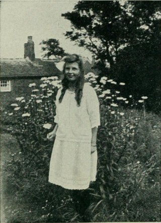 Frances Griffiths in 1920, picture printed in the american edition of the 1922 book "The Coming of the Fairies" by Sir Arthur Conan Doyle (died in 1930). Author is not precised.